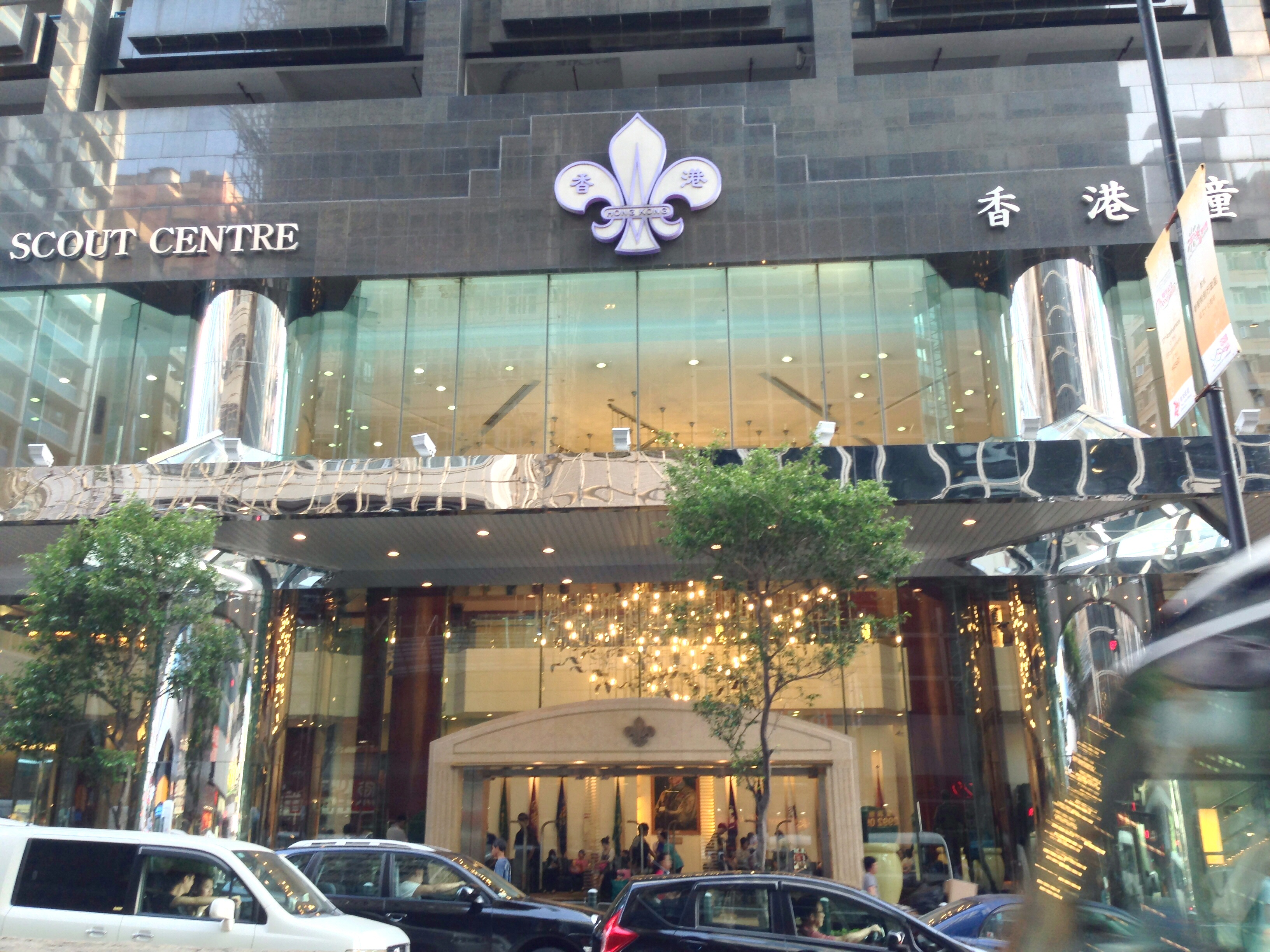 The front entrance of the Hong Kong Scout Centre in Tsim Sha Tsui.